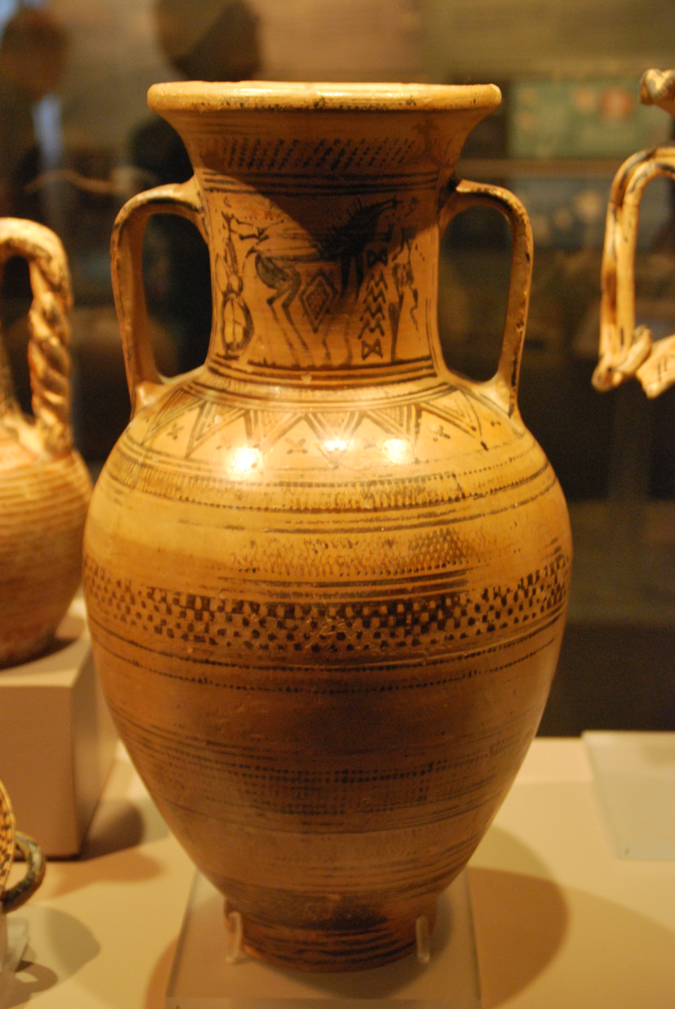 Attic Late geometric IIa/b period Neck amphora decorated with chariot scenes on both sides of the neck; Painter of Athens 894, ca. 735/720 B.C.; Museum of Cyclydic Art Athens Ch. Politis Collection 1.